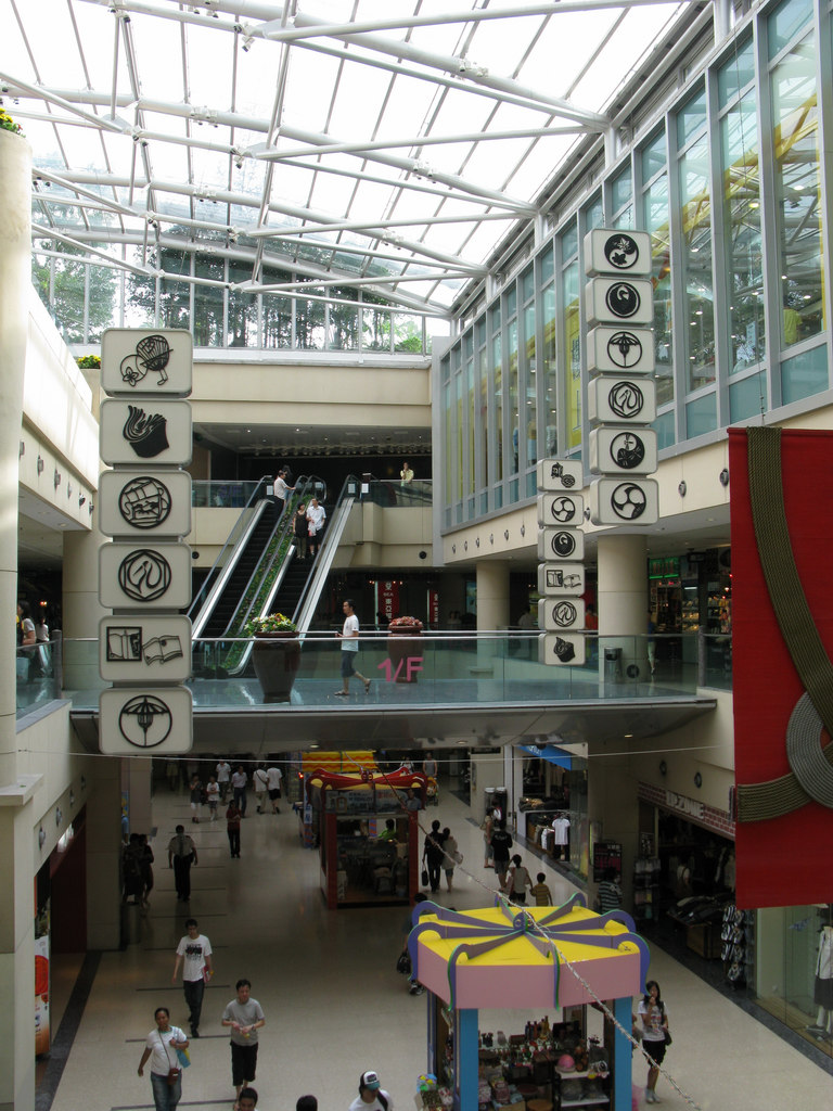 Kingswood Ginza Phase 2 (Cine Valley)